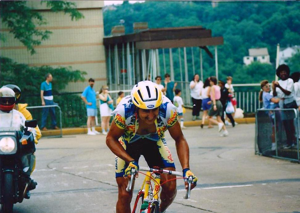 Roy Knickman (Coors Light) races the 1991 Thrift Drug Classic